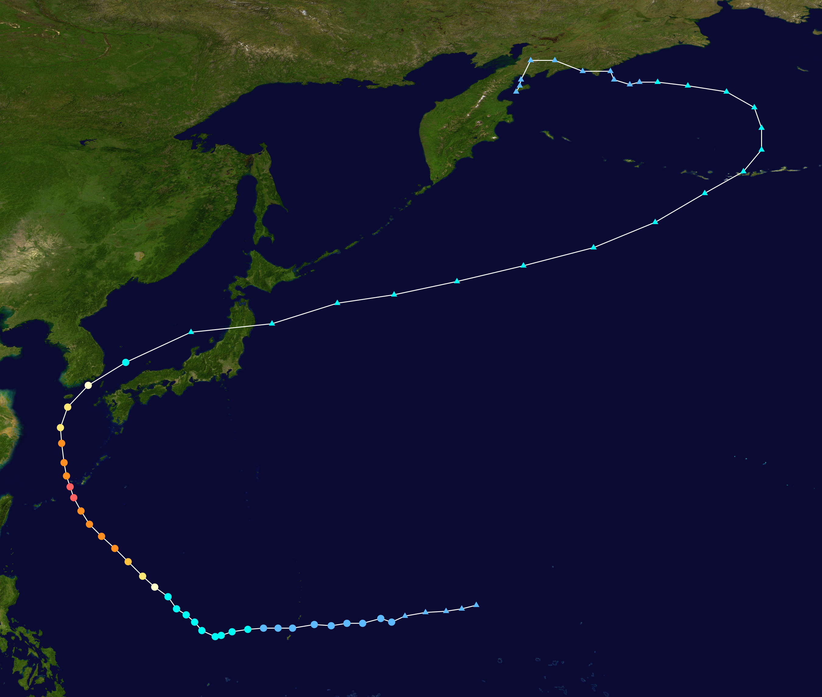 Track map of Typhoon Chaba of the 2016 Pacific typhoon season. The points show the location of the storm at 6-hour intervals. The colour represents the storm's maximum sustained wind speeds as classified in the Saffir–Simpson scale (see below), and the shape of the data points represent the nature of the storm, according to the legend below. Saffir–Simpson scale Tropical depression≤38 mph≤62 km/h Category 3111–129 mph178–208 km/h Tropical storm39–73 mph63–118 km/h Category 4130–156 mph209–251 km/h Category 174–95 mph119–153 km/h Category 5≥157 mph≥252 km/h Category 296–110 mph154–177 km/h Unknown Storm type Tropical cyclone Subtropical cyclone Extratropical cyclone / Remnant low / Tropical disturbance / Monsoon depression